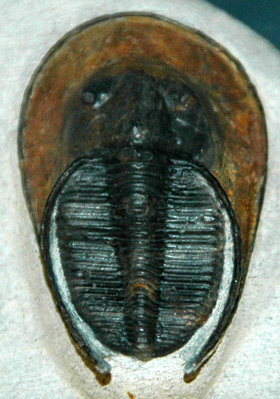 Harpes perradiatus Richter & Richter, 1943 fossil trilobite from the Devonian of Morocco (public display, FMNH PE 60832, Field Museum of Natural History, Chicago, Illinois, USA). Classification: Animalia, Arthropoda, Trilobita, Polymerida, Harpididae